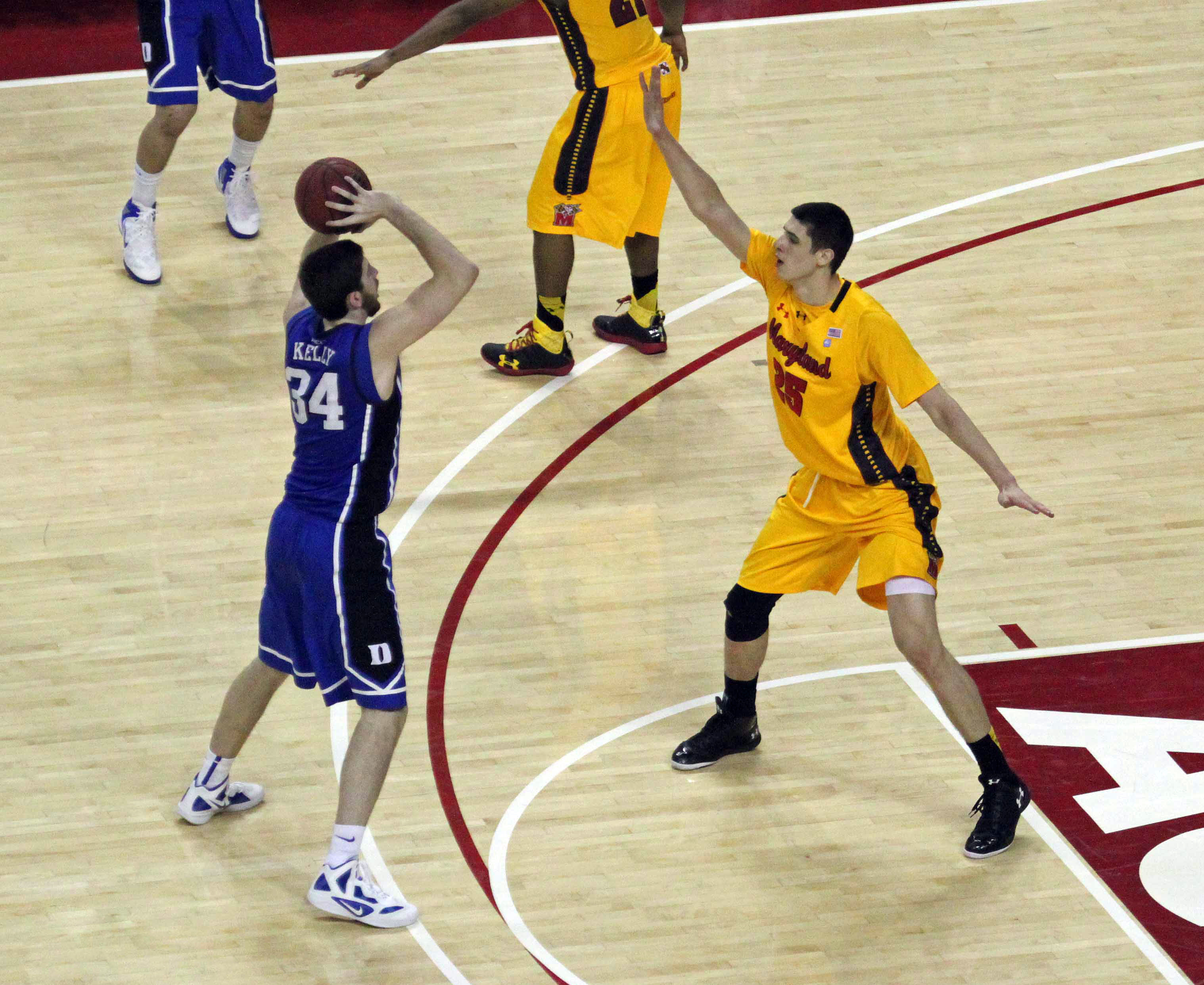 Maryland's Alex Len defends against Ryan Kelly.